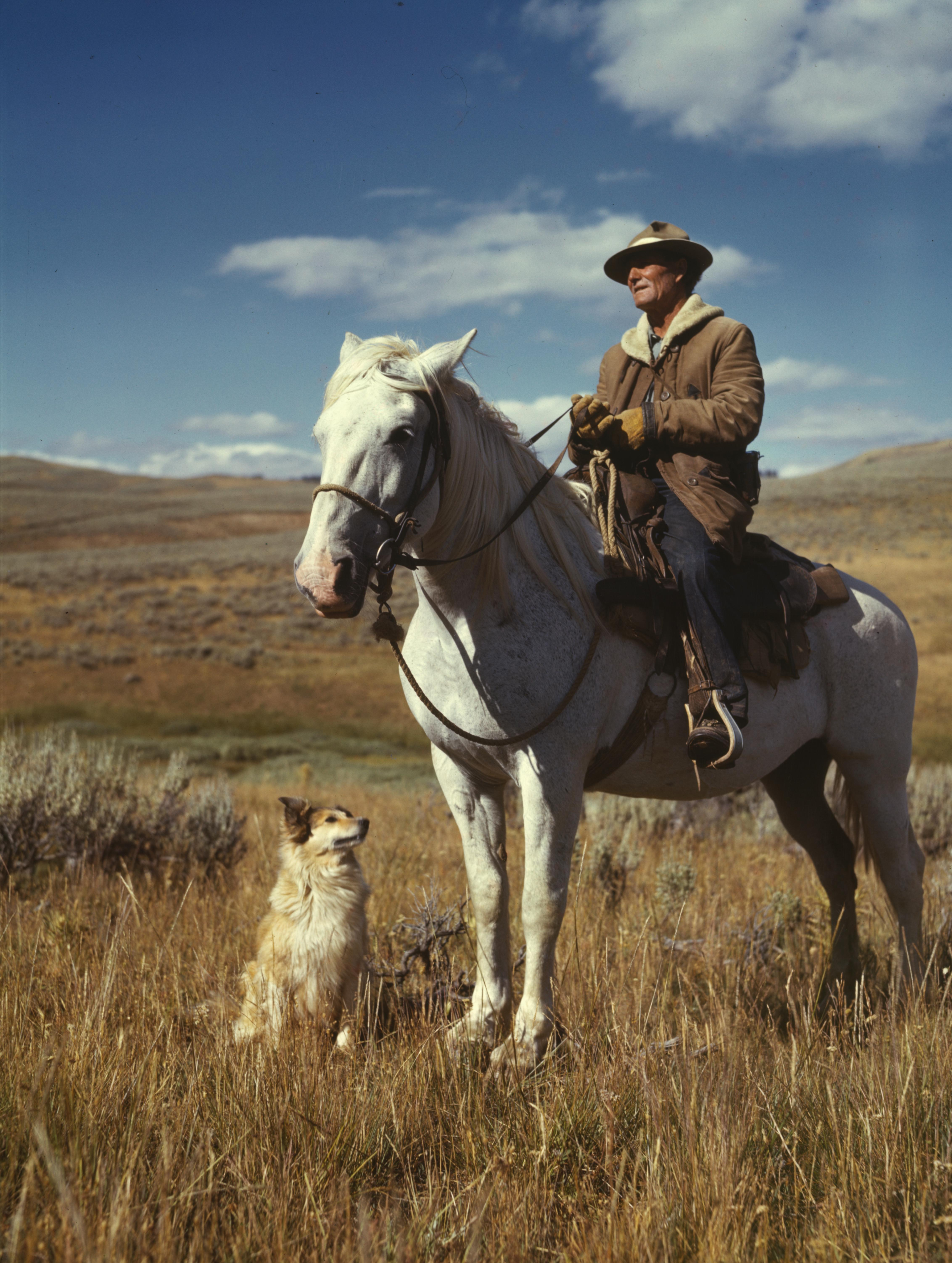 Shepherd with his horse and dog on Gravelly Range, Madison County, Montana